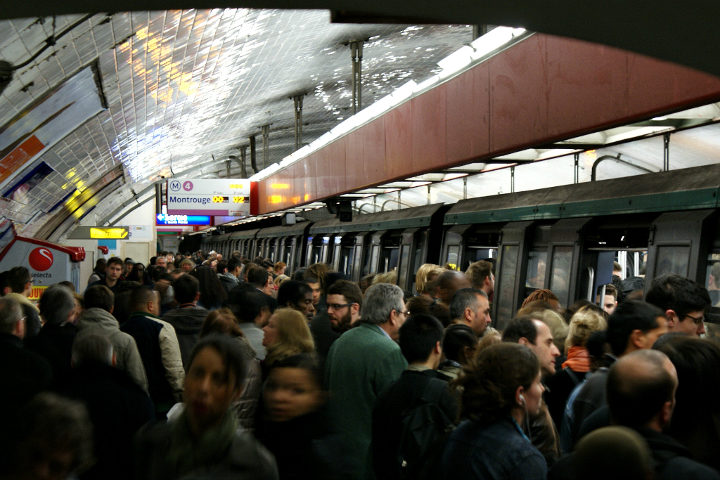 Paris metro line 4 at Châtelet during evening rush hours.